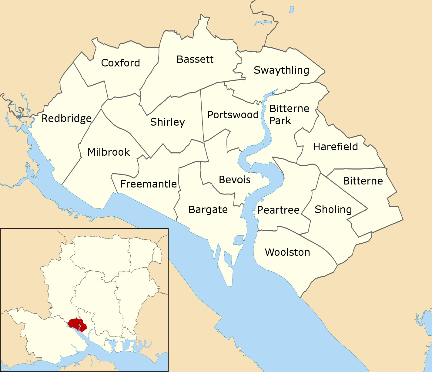 The 16 wards of Southampton used for elections to the Southampton City Council. These wards have been used since 2002, all are represented by three councillors